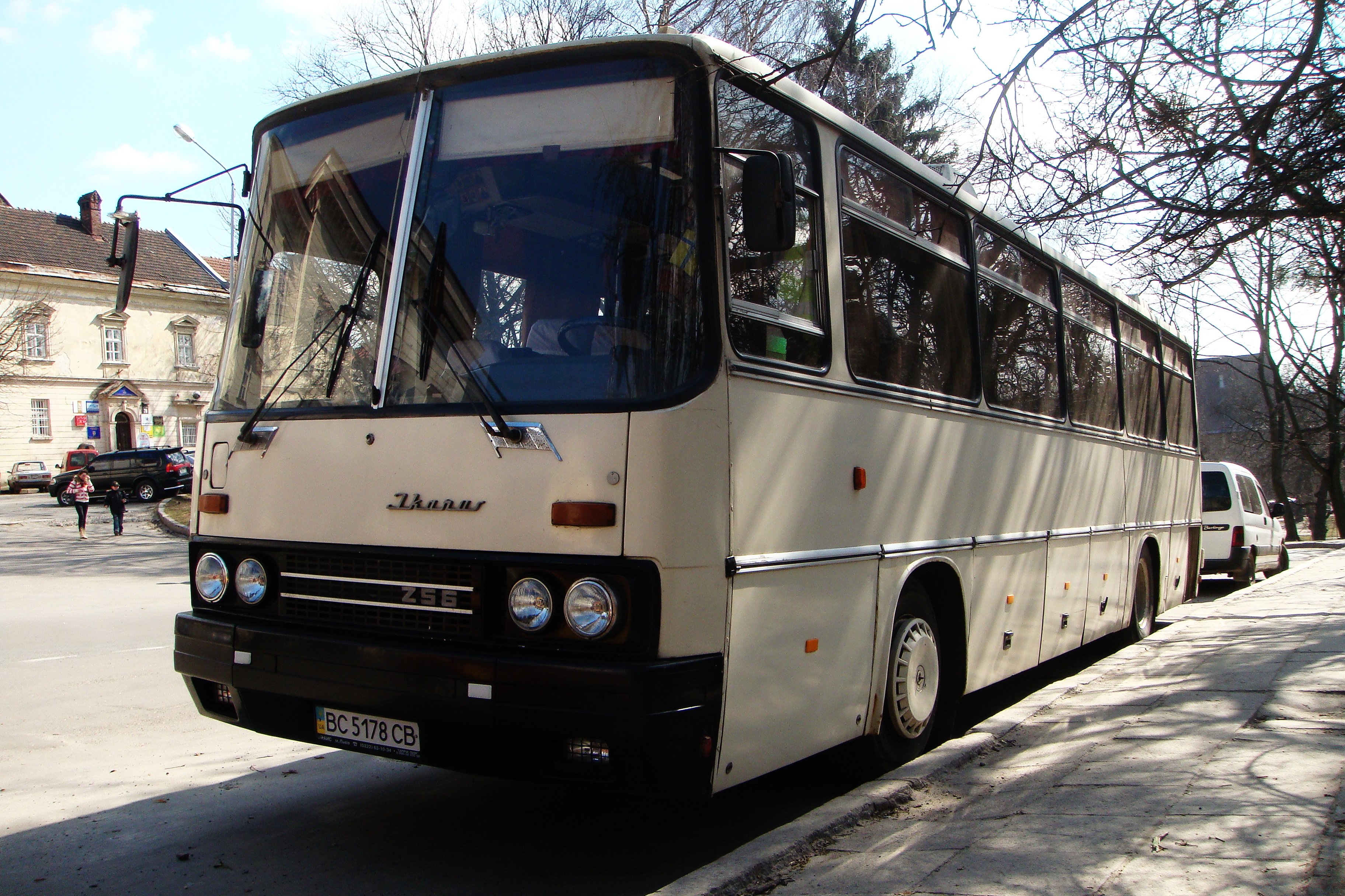 Ikarus-256 in Lviv. Operator unknown.